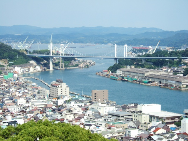 Onomichi city, Hiroshima Prefecture. View from Senkōji Temple.